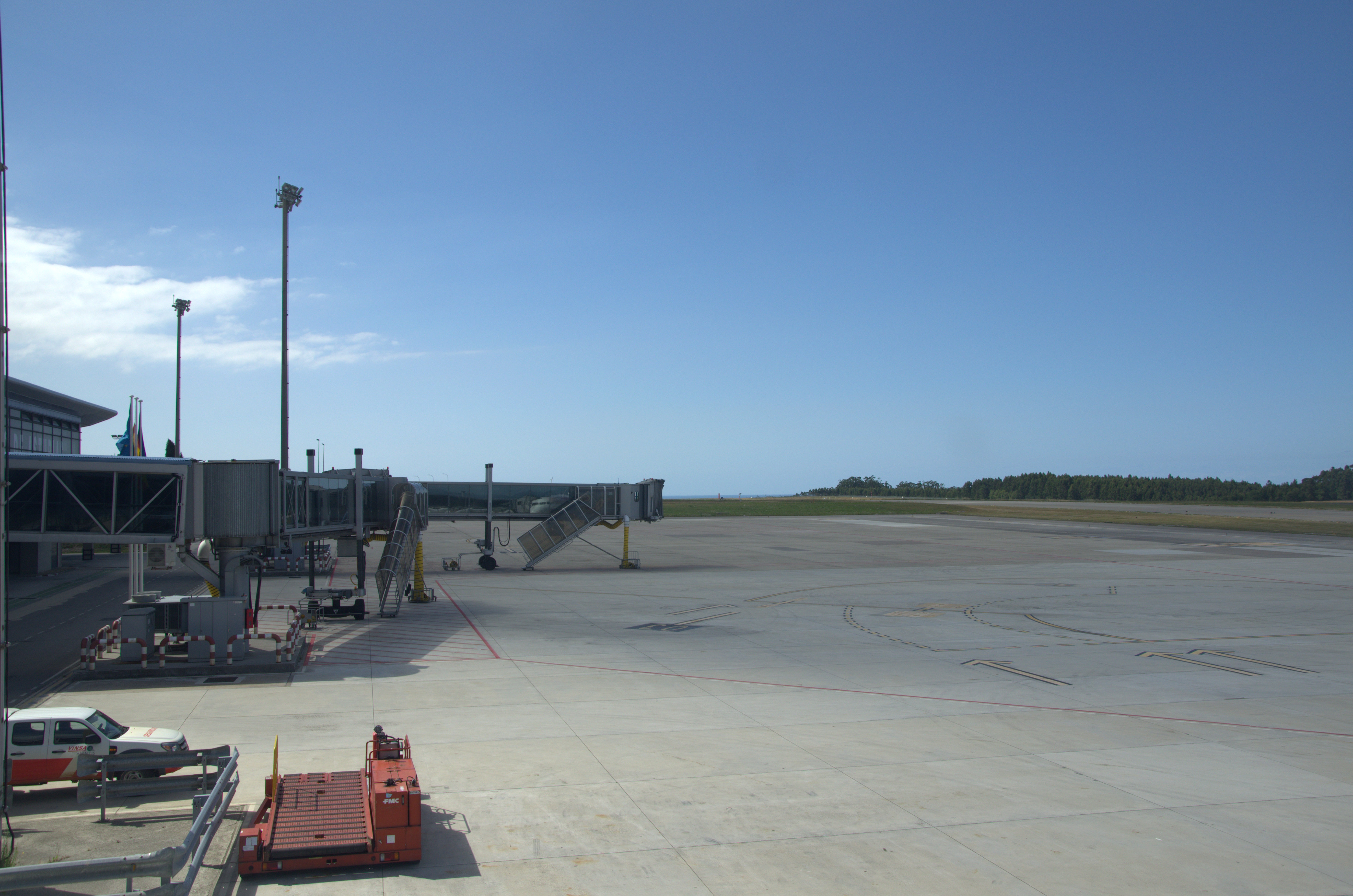 Apron area of Asturias Airport, Spain.